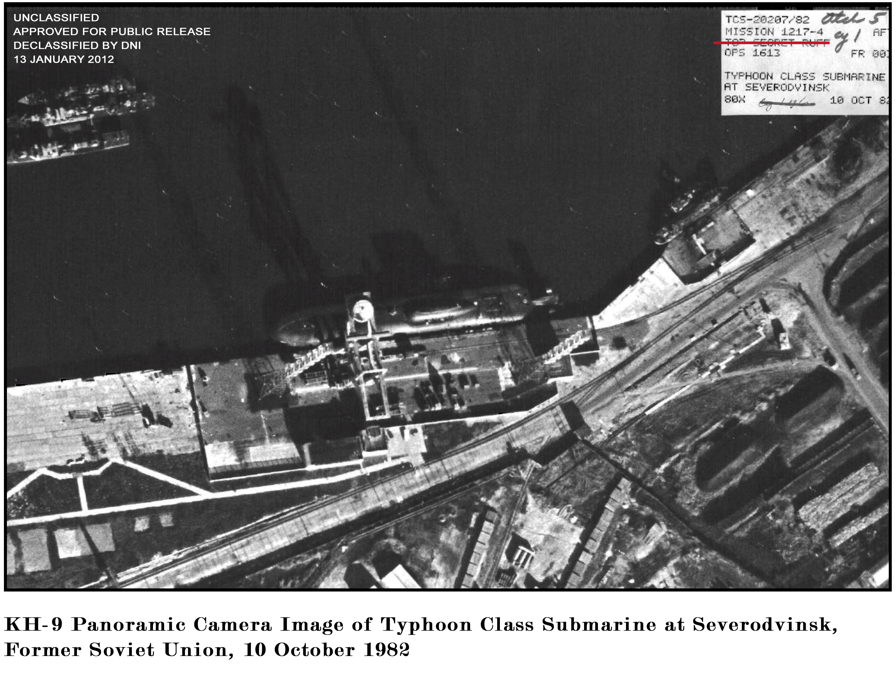 Typhoon class submarine. Severodvinsk, former USSR. 10 oct 1982. Taken by KH-9 satellite.